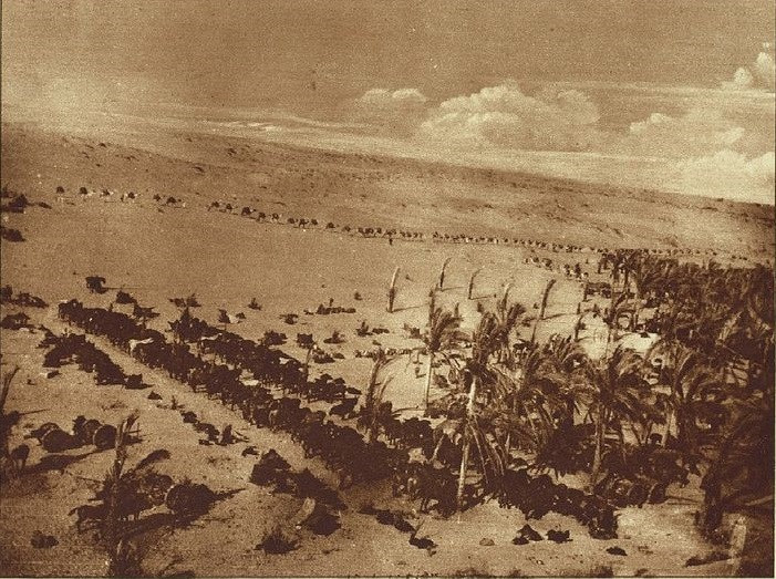 Photo of British forces at the Oghratine oasis, near Romani. This was the jump off point for the Ottoman attack on the British fort at Romani. The Ottoman forces were soundly defeated and the British counter-attacked to the East. Given that the battle of Romani took place on August 3-5, 1916 it seems most likely that this picture is from August or perhaps September of 1916. Original caption: "Battlefield of Oghratine, where Australian and New Zealand soldiers gained an important victory over the Turks. In the foreground is a column ready to join the long line of camel troops already advancing". See Battle of Romani.